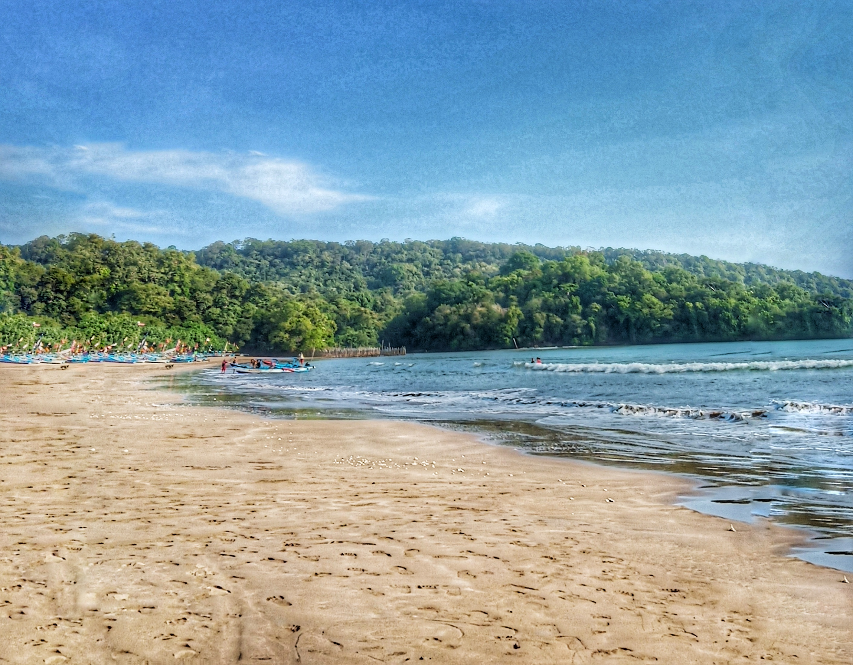 The sea becomes a source of livelihood for the fishermen. Let's maintain the cleanliness of the Sea and beach by not littering and reducing the use of plastic for the preservation of the natural conservation of the ocean environment and its surroundings. The west beach of Pangandaran is a place where you can enjoy the sunset. If you want to buy fresh fish, you can immediately meet the fishermen by visiting the coastal area or you can visit the local market.